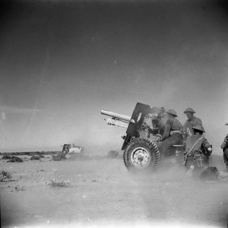 The British Army in North Africa 1942 25-pdr field guns in action in the Western Desert, 22 March 1942.